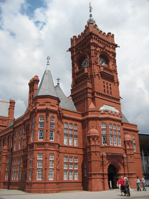 The Pierhead Building, Cardiff Bay, Wales